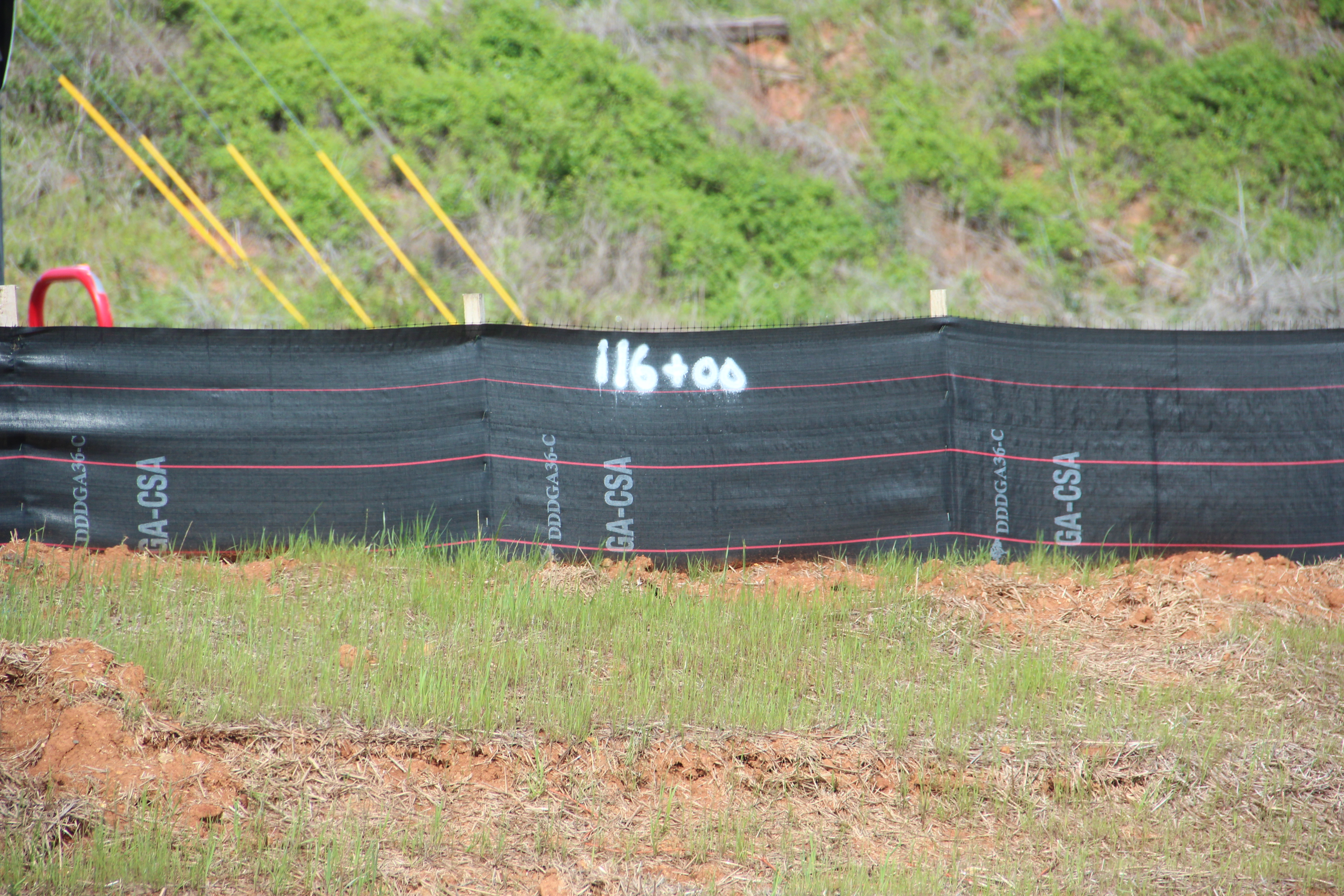 Station number on a silt fence in Floyd County, GA